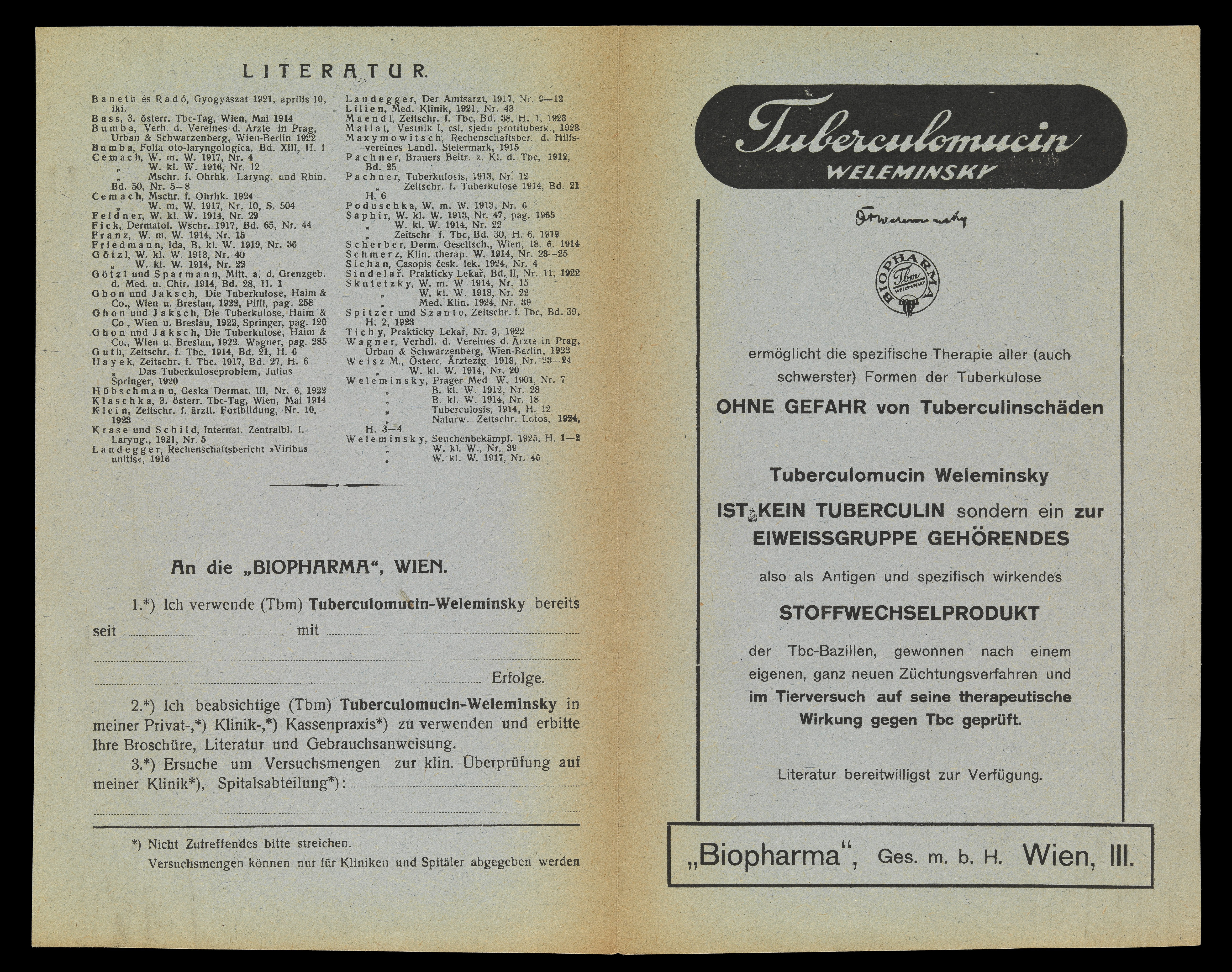 Advertisement for Tuberculomucin Weleminsky (tuberculosis, 1927). General Collections Keywords: Pharmaceutical Preparations; Drug Industry; Theranyl.; Bisodol.; Dyspepsia; Tuberculosis, Pulmonary; Bronchitis; Alupent.; Bile Beans for Biliousness.; Persantin.; Bisurated Magnesia.; Vertigo-Heel.; Villescon.; Piso's Remedy.; Biocitin.; Bisolvon.; Tuberculomucin.; Combivent.